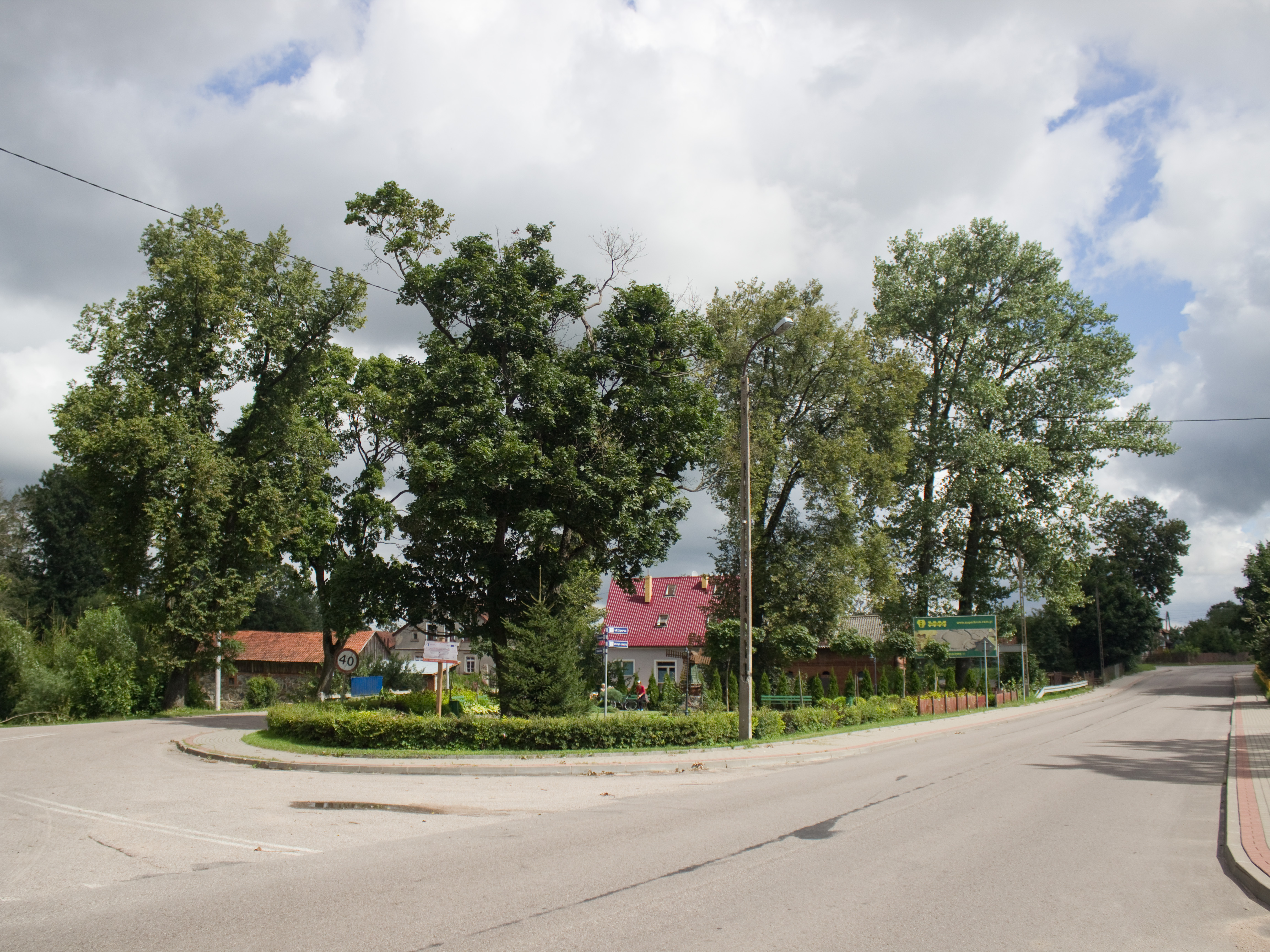 Wieliczki, gmina Wieliczki, powiat olecki, Warmian-Masurian Voivodeship